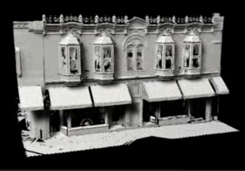 Laser scan elevation of Bullock-Clark Building, 616-618 Main Street (1894) - The original Bella Union Theater and the IXL (I Excell) Hotel occupied these lots from 1876 until the fire of 1879. After that fire, Mrs. Seth Bullock and Horace Clark each built new 25-foot wide buildings, which were consumed by the Fire of 1894. Bullock and Clark then agreed to construct a single structure on their two lots, and this building is the result. The first tenant was the Boston Restaurant. Next Door was the Deadwood Beer Hall. The second floor served as barracks for the Salvation Army for several years. The second story was later occupied as a house of prostitution which operated until 1980.